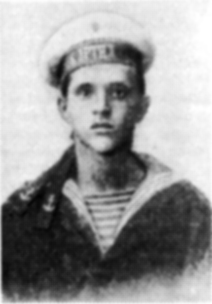 A picture of Dmitry Ivanovich Popov